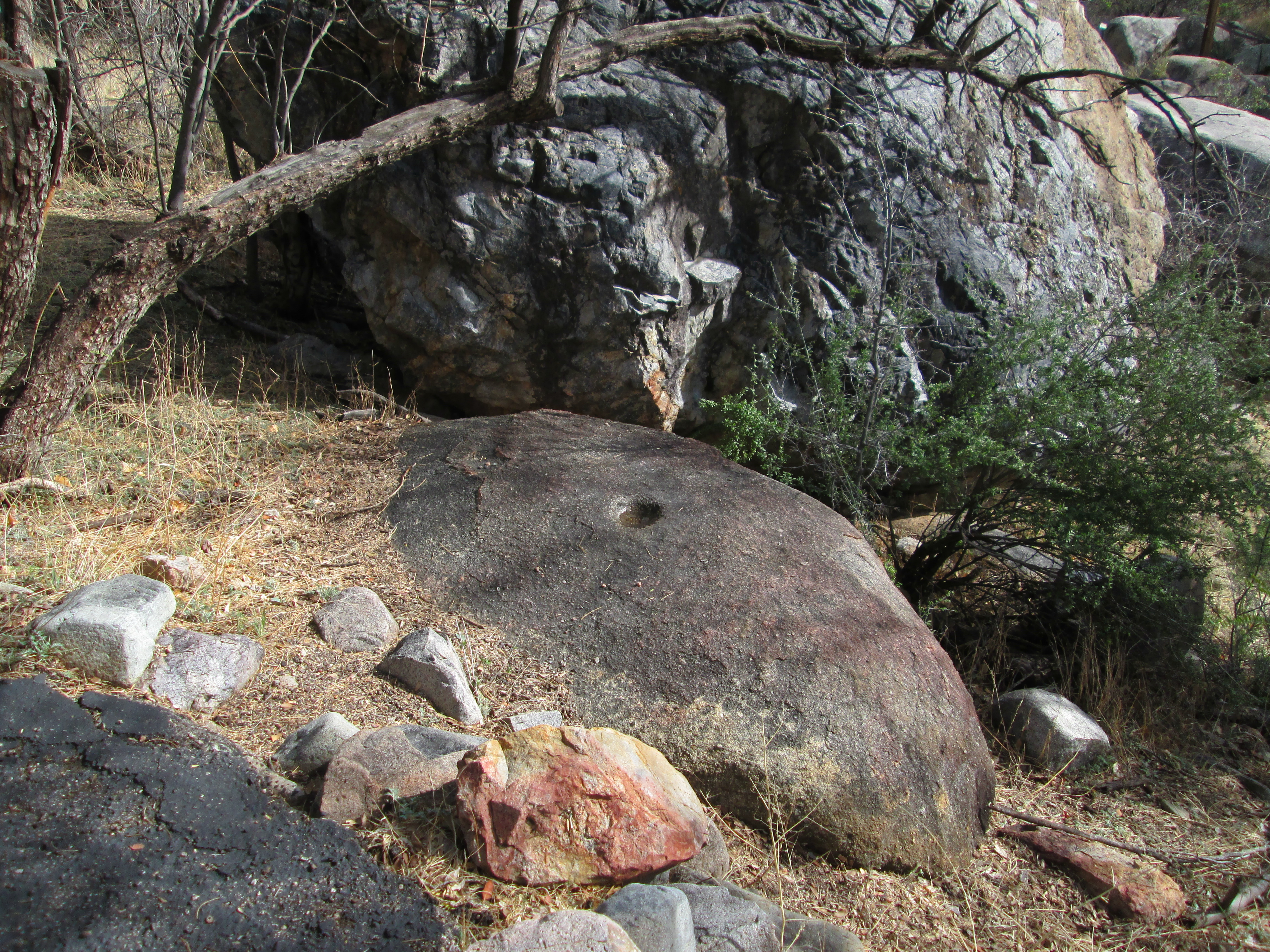 A Hohokam bedrock mortar filled with rain water in Madera Canyon, southern Arizona. March 2, 2014